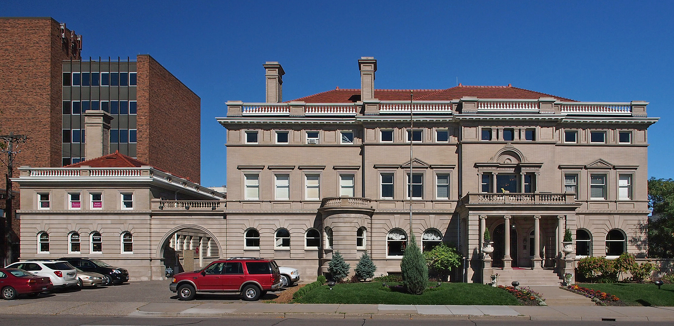 Anne C. and Frank B. Semple House, 100–104 W Franklin Ave, Minneapolis, Minnesota, USA. Viewed from the south.